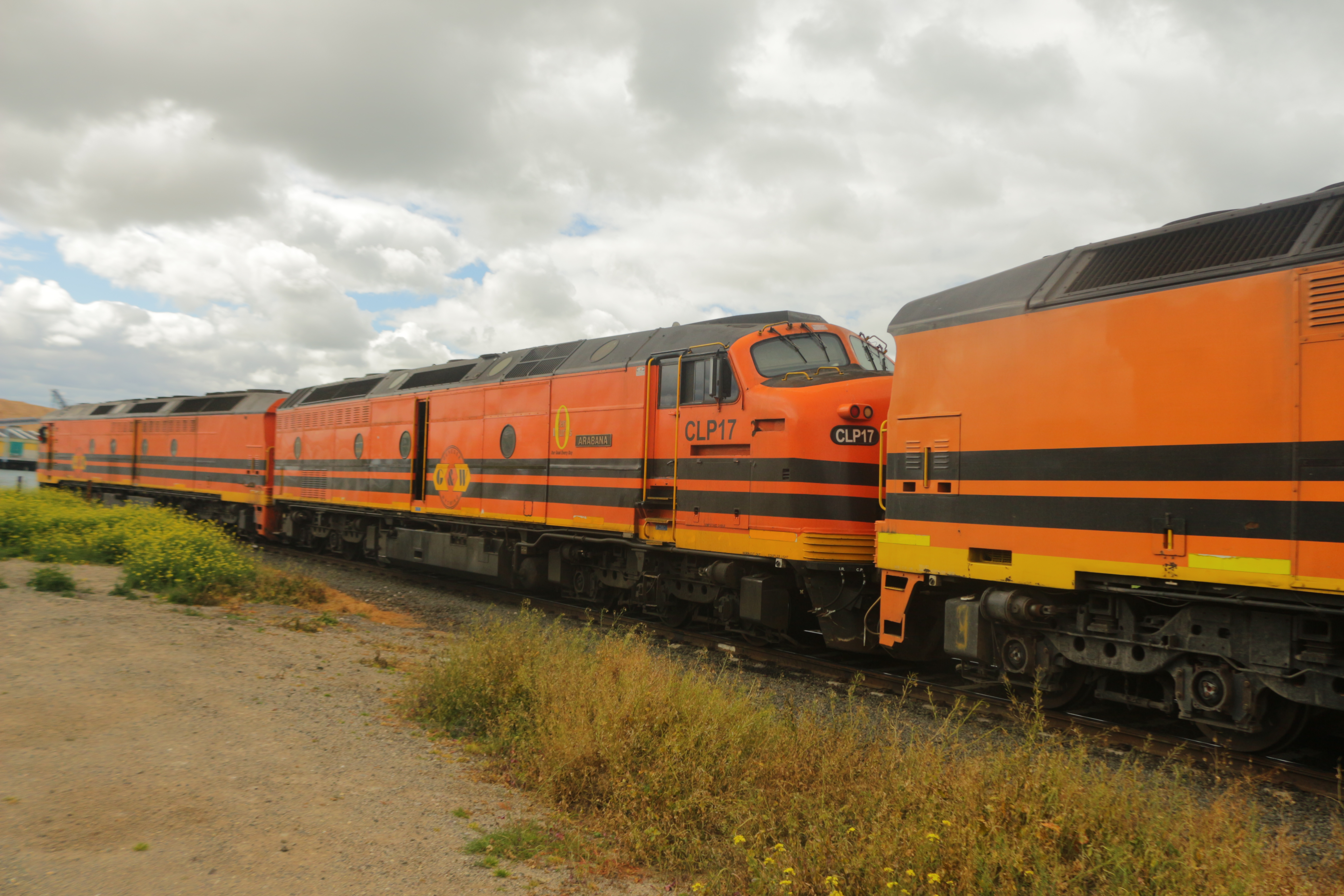 Genesee and Wyoming CLP17 (Ex CL8) "Arabana" at North Geelong Grain Loop 24/9/2019